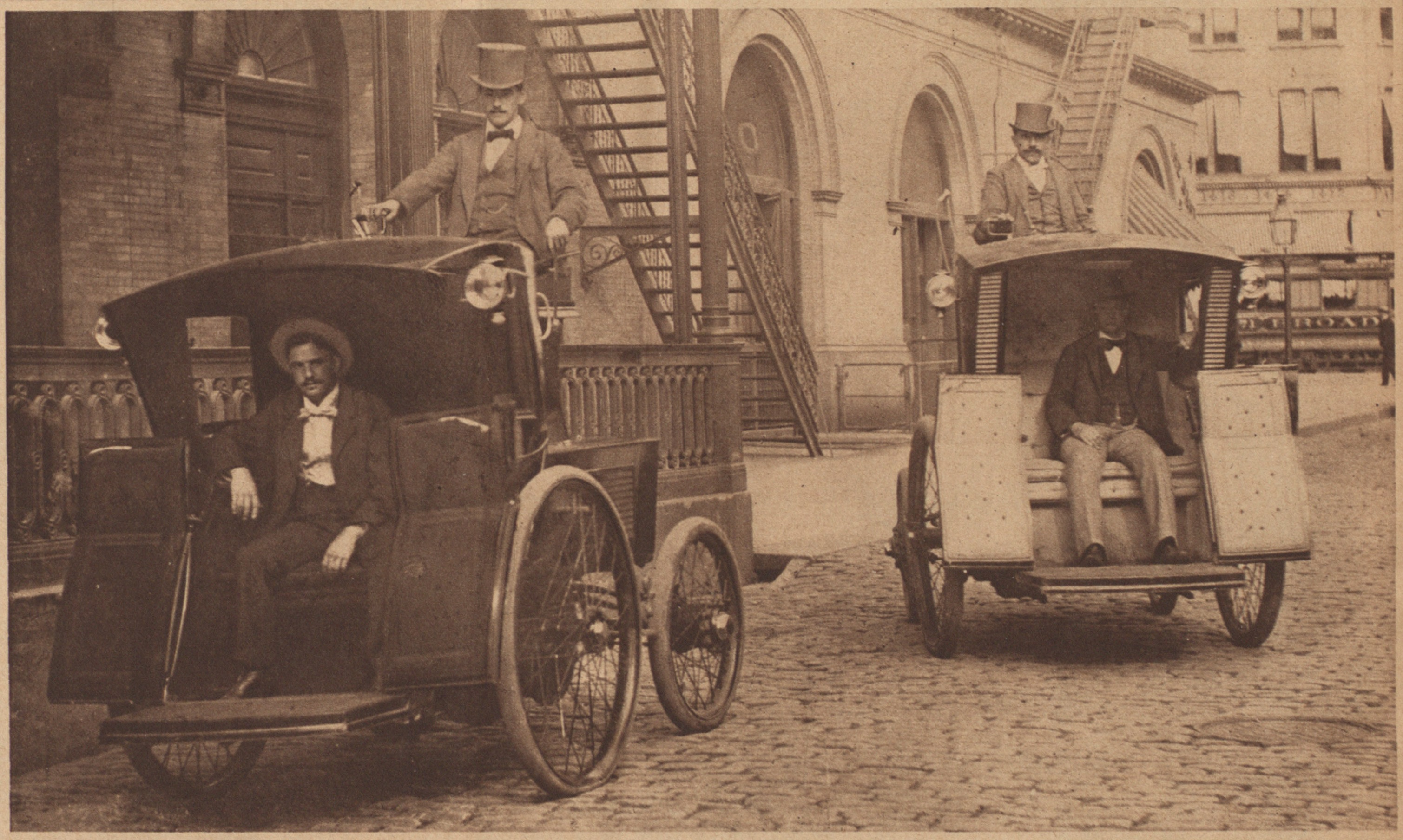 Morris and Salom Electrobats pass in front of the Old Metropolitan Opera House on Manhattan's 39th Street in 1898. The Electrobats are electric battery-powered cars that served as early taxis in the city.